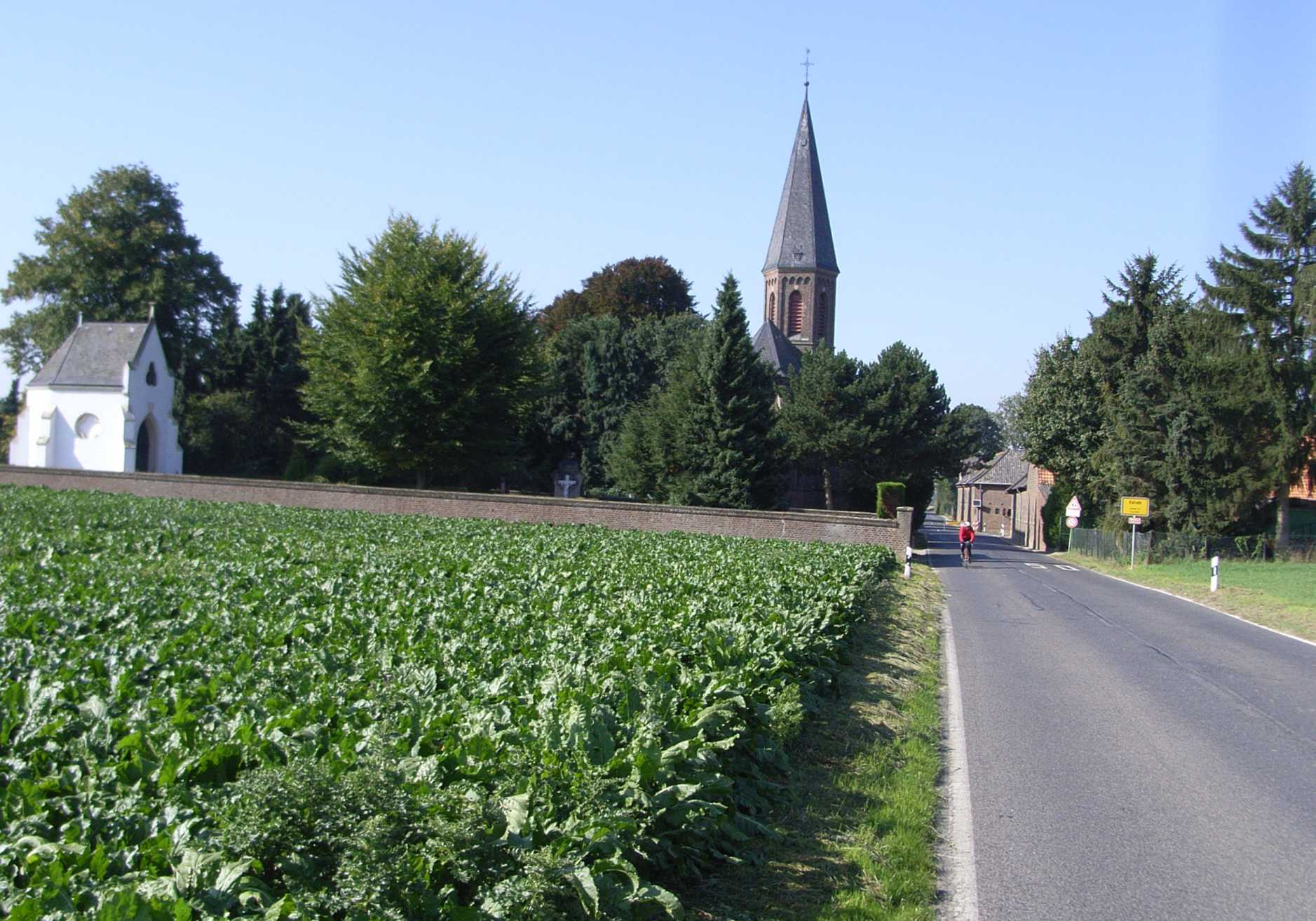 Titz Kalrath, NRW